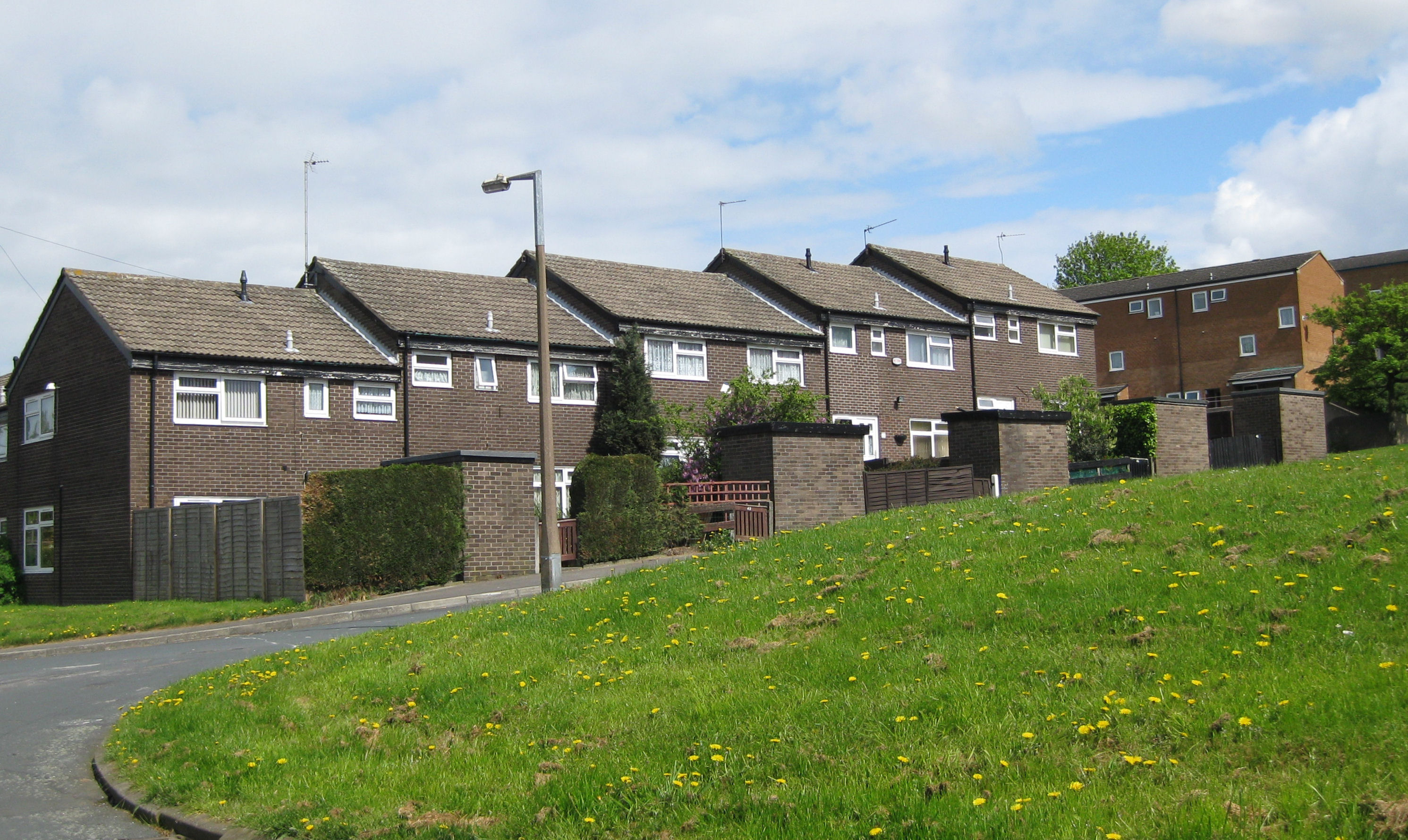 Beck Hill Gardens, Leeds LS7. Council House estate